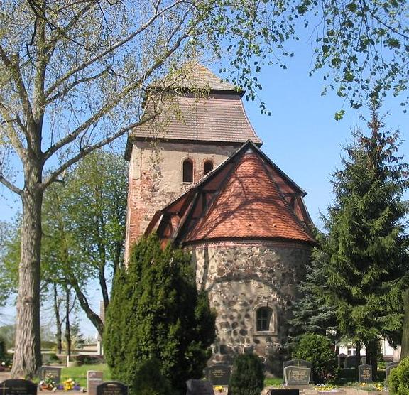 Stonechurch Deetz, oldest parts from 12th century. Deetz is a municipality in the Nature park Fläming in the district Anhalt-Bitterfeld, state Saxony-Anhalt, Germany.